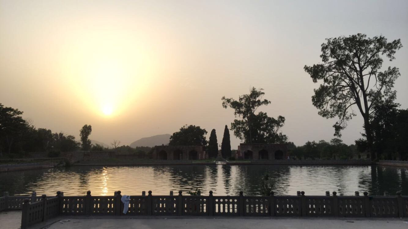 Wah Mughal Gardens This is a photo of a monument in Pakistan identified as the PB-U-70